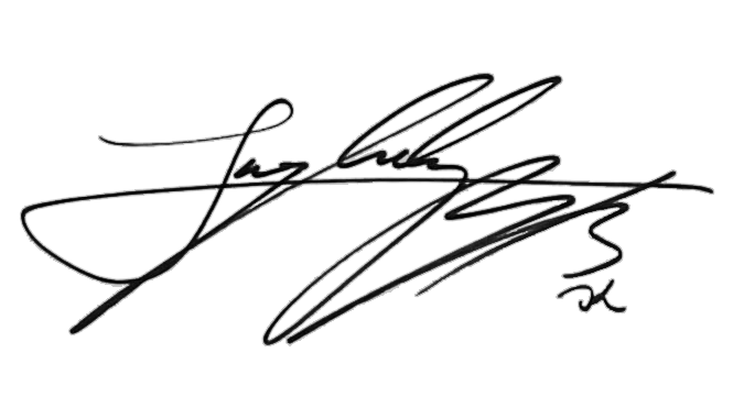 Signature of Jungkook (Jeon Jungkook)